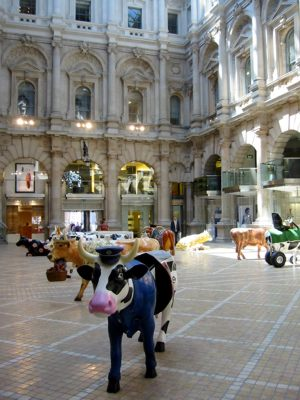 Royal Exchange, London (interior)